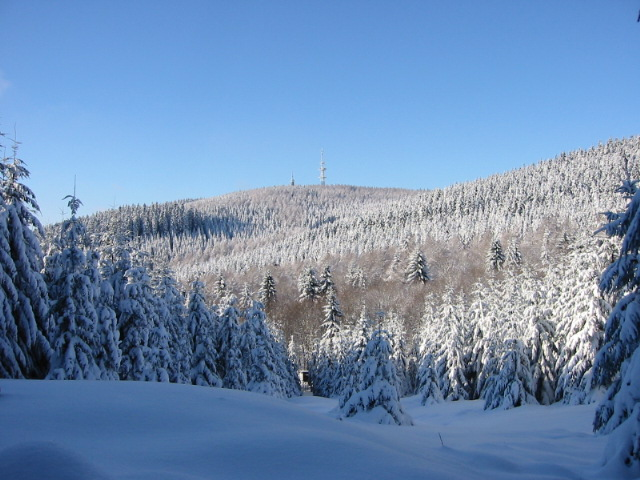 Mount "Kindelsberg" in the "Siegerland", Germany